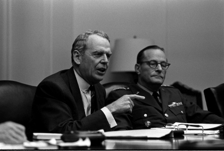 Sec. Clark Clifford with General Wheeler in the cabinet room, 1968